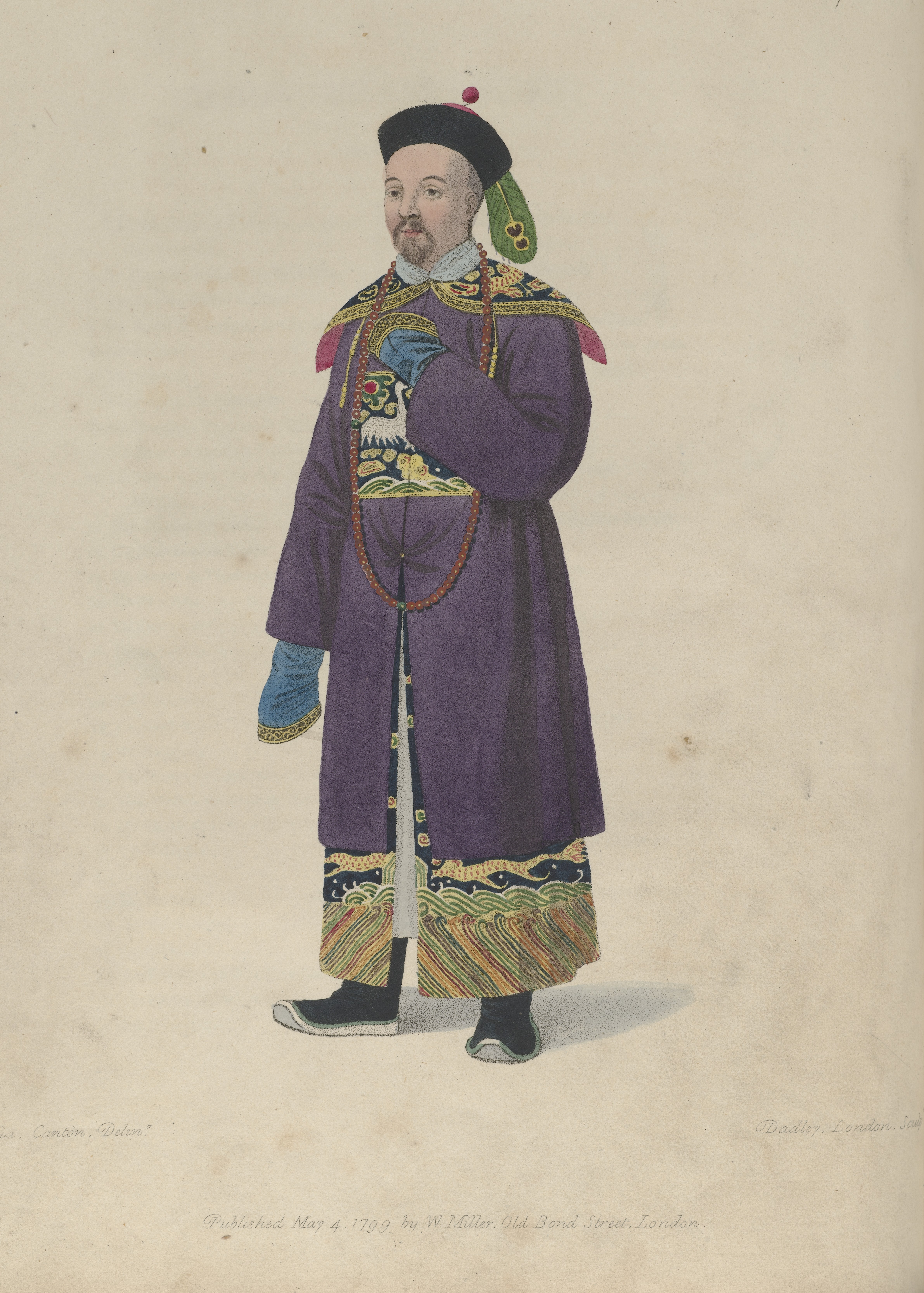 A Mandarin of Distinction, in his habit of ceremony Rare Books Keywords: Clothing; Clothes